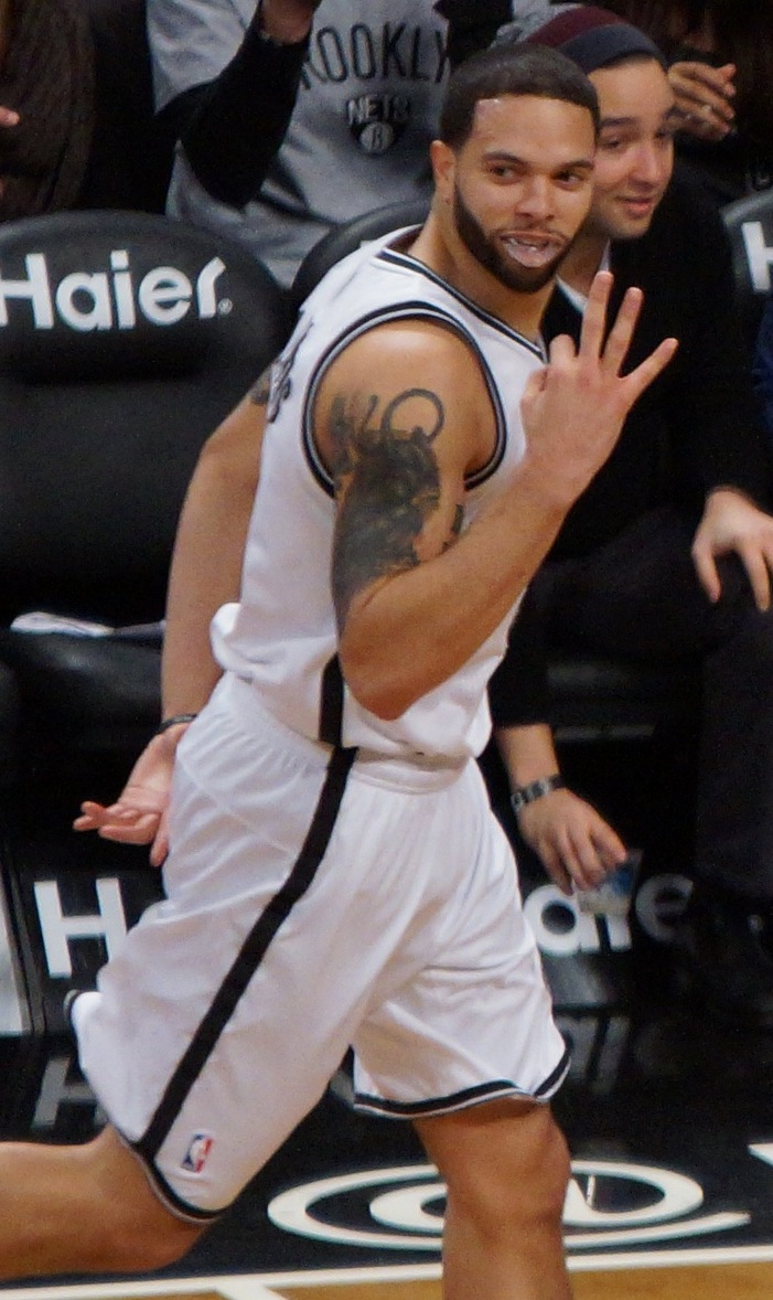 Deron Williams celebrates record 3-pointer